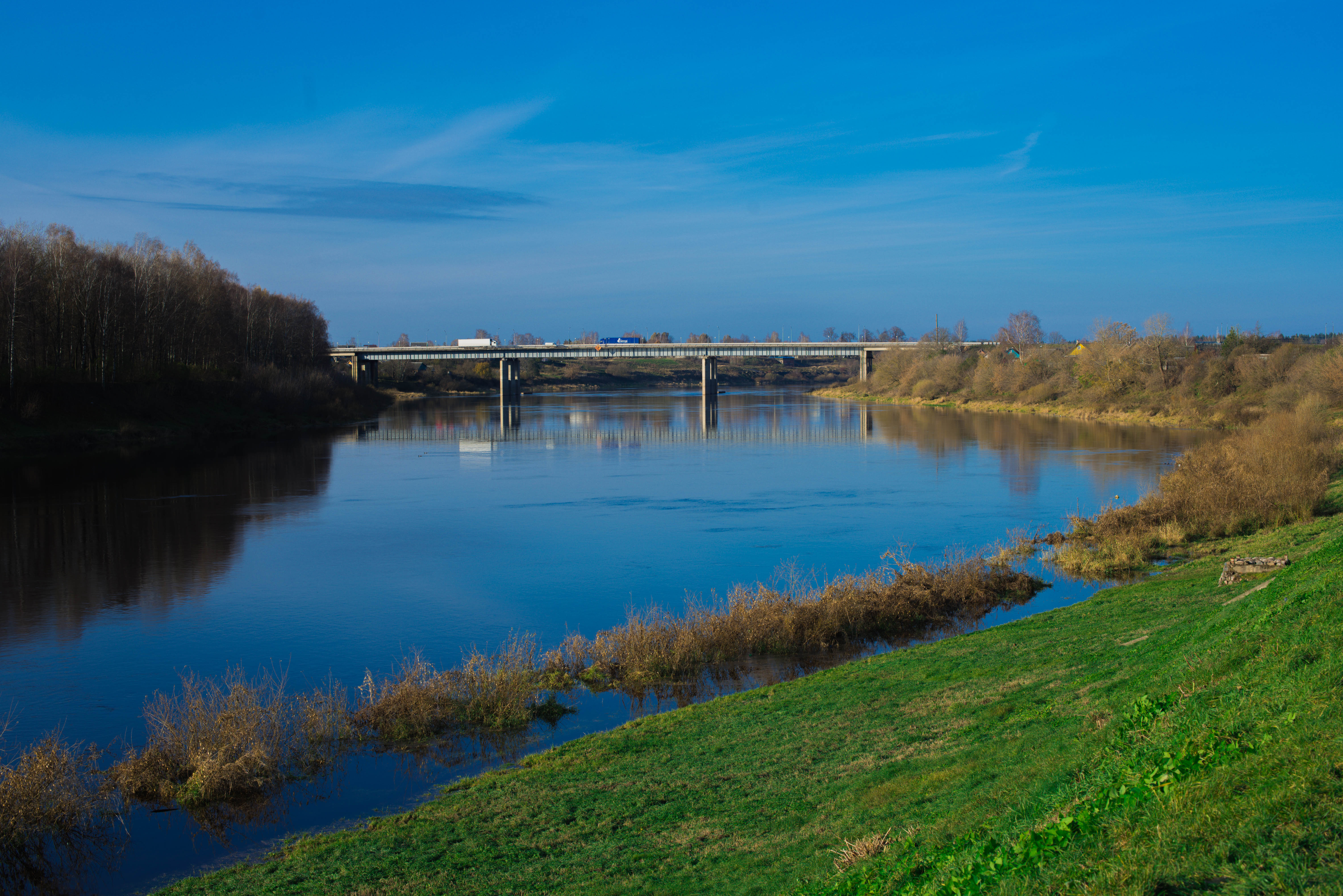 Western Dvina River in Polotsk